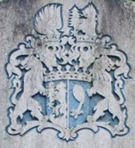 Berenberg-Gossler-COA, Niendorfer Friedhof, Hamburg